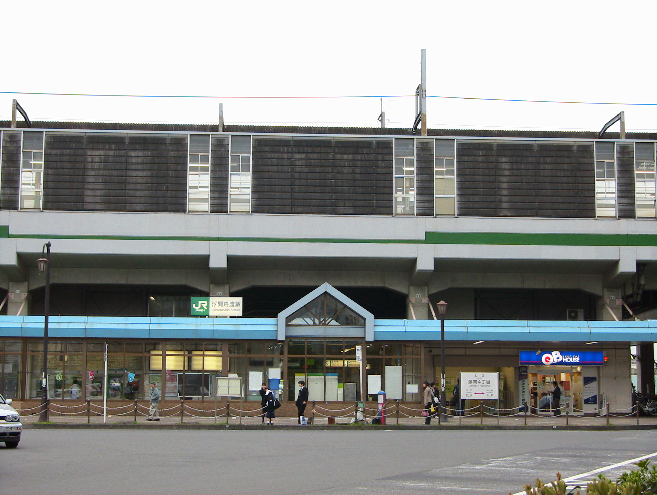 Front view of Ukima-Funado Station